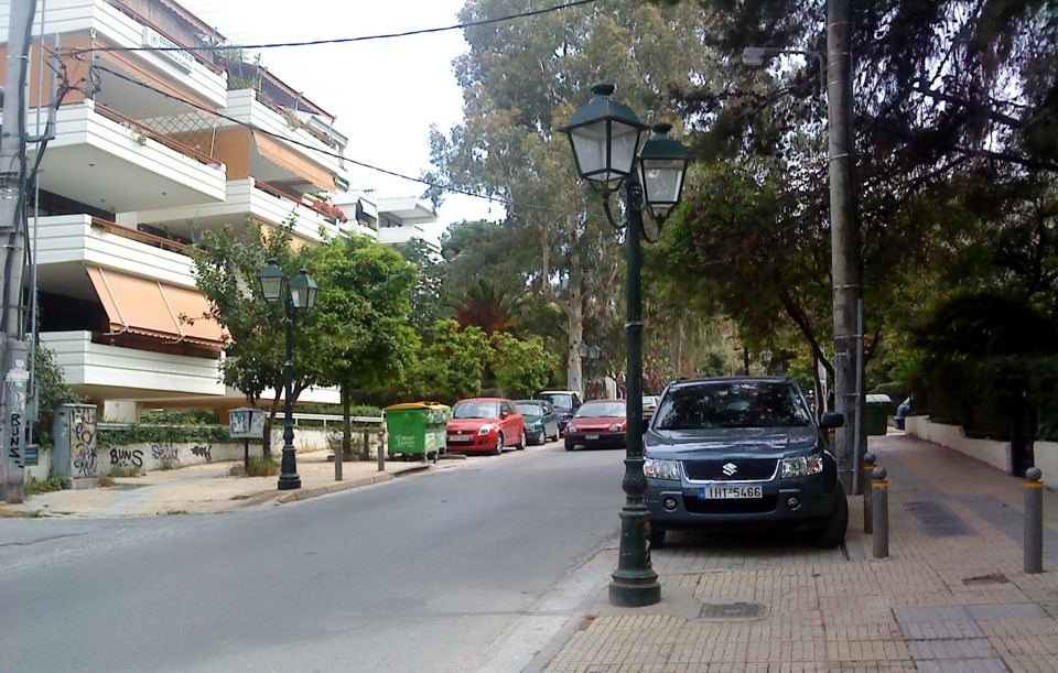 Aghiou Ioannou street at Aghia Paraskevi area.